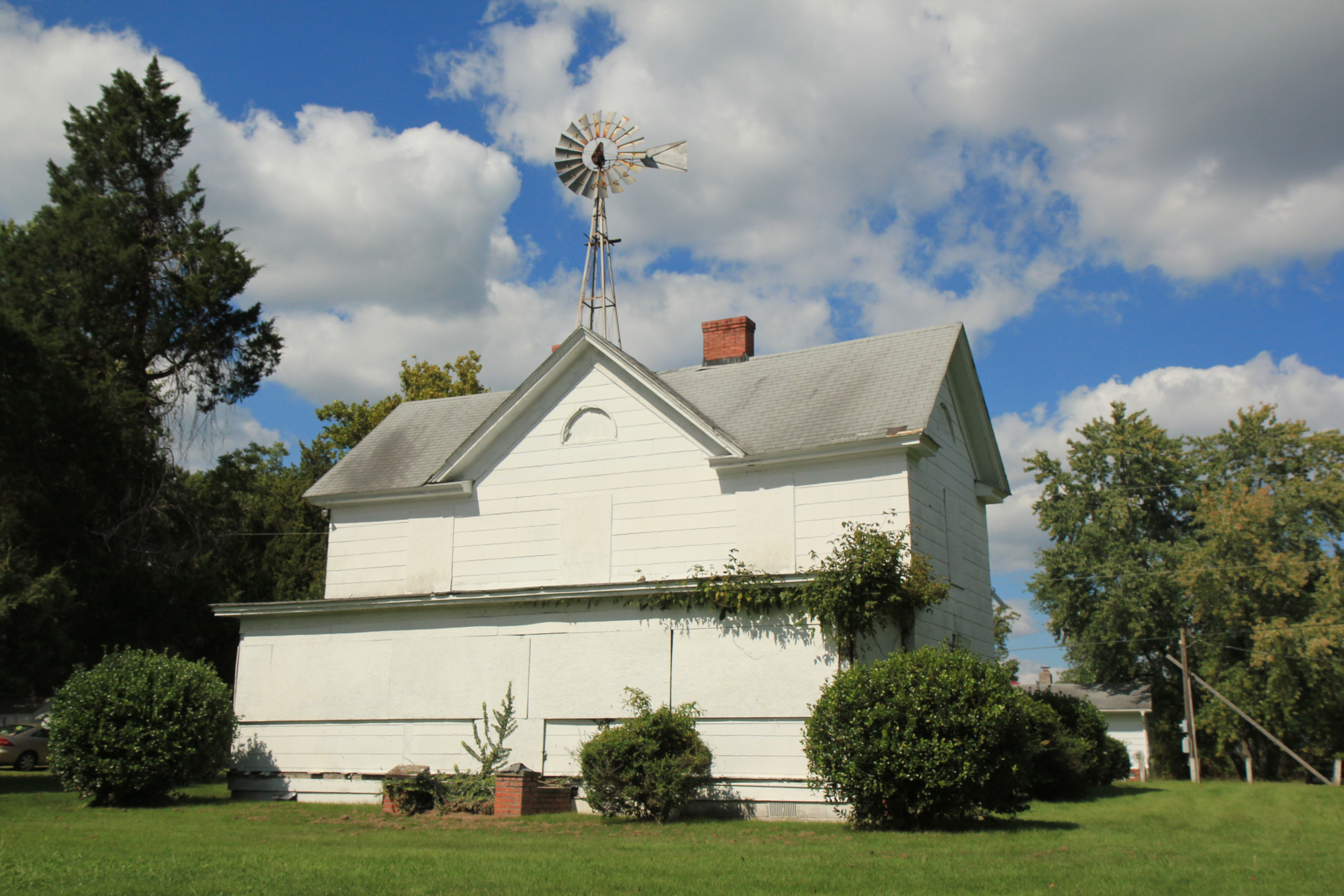 This is Thomas Calhoun Walker's historic home. Unfortunately it is in poor repair, but the main structure still stands on Main Street.